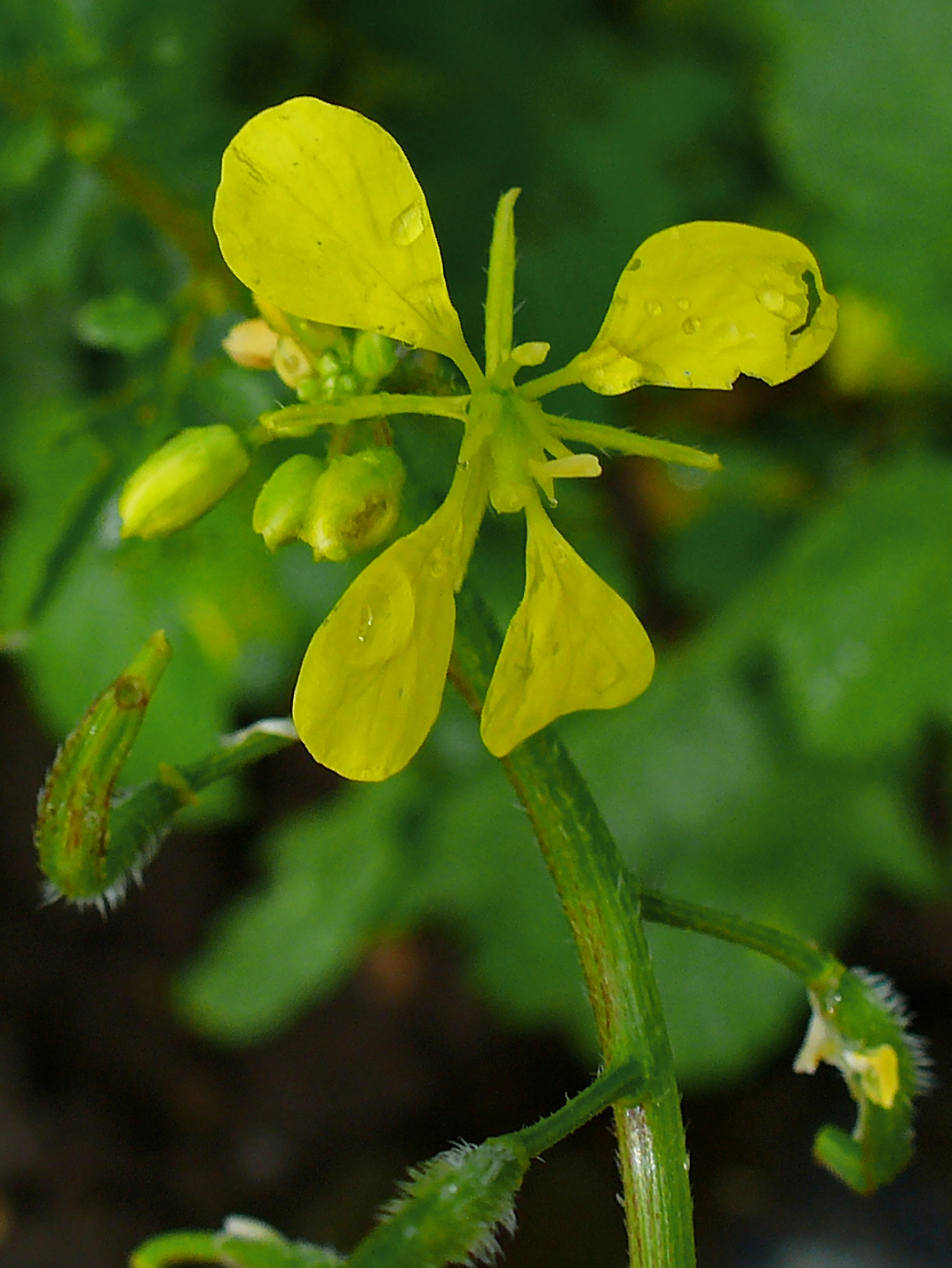 Brassica nigra, Brassicaceae, Black Mustard, flower; Botanical Garden KIT, Karlsruhe, Germany. The dried seeds are used in homeopathy as remedy: Sinapis nigra (Sin-n.)